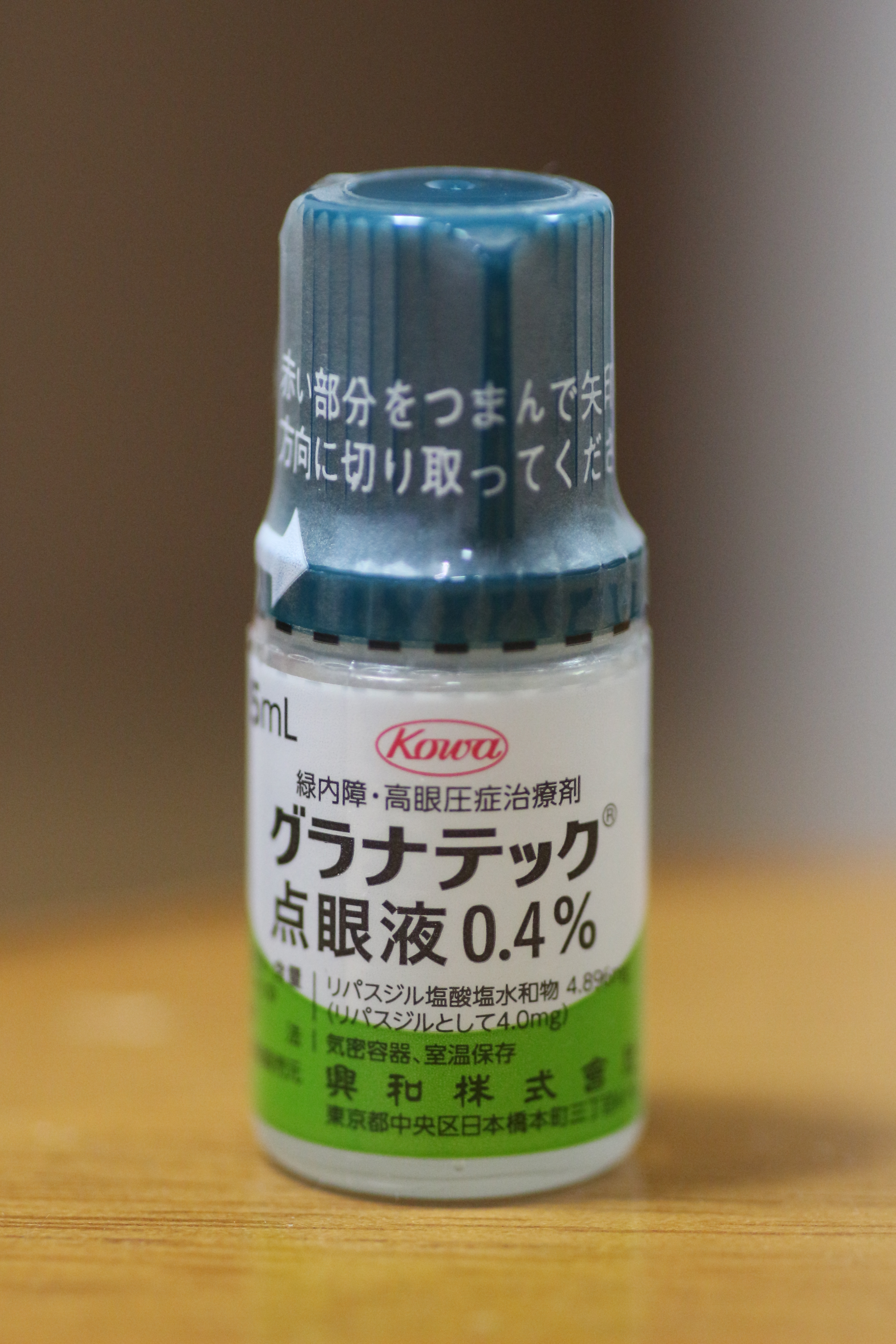 Glanatec (japan)